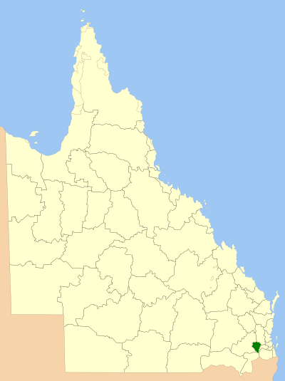 Location of the Local Government Area in Queensland